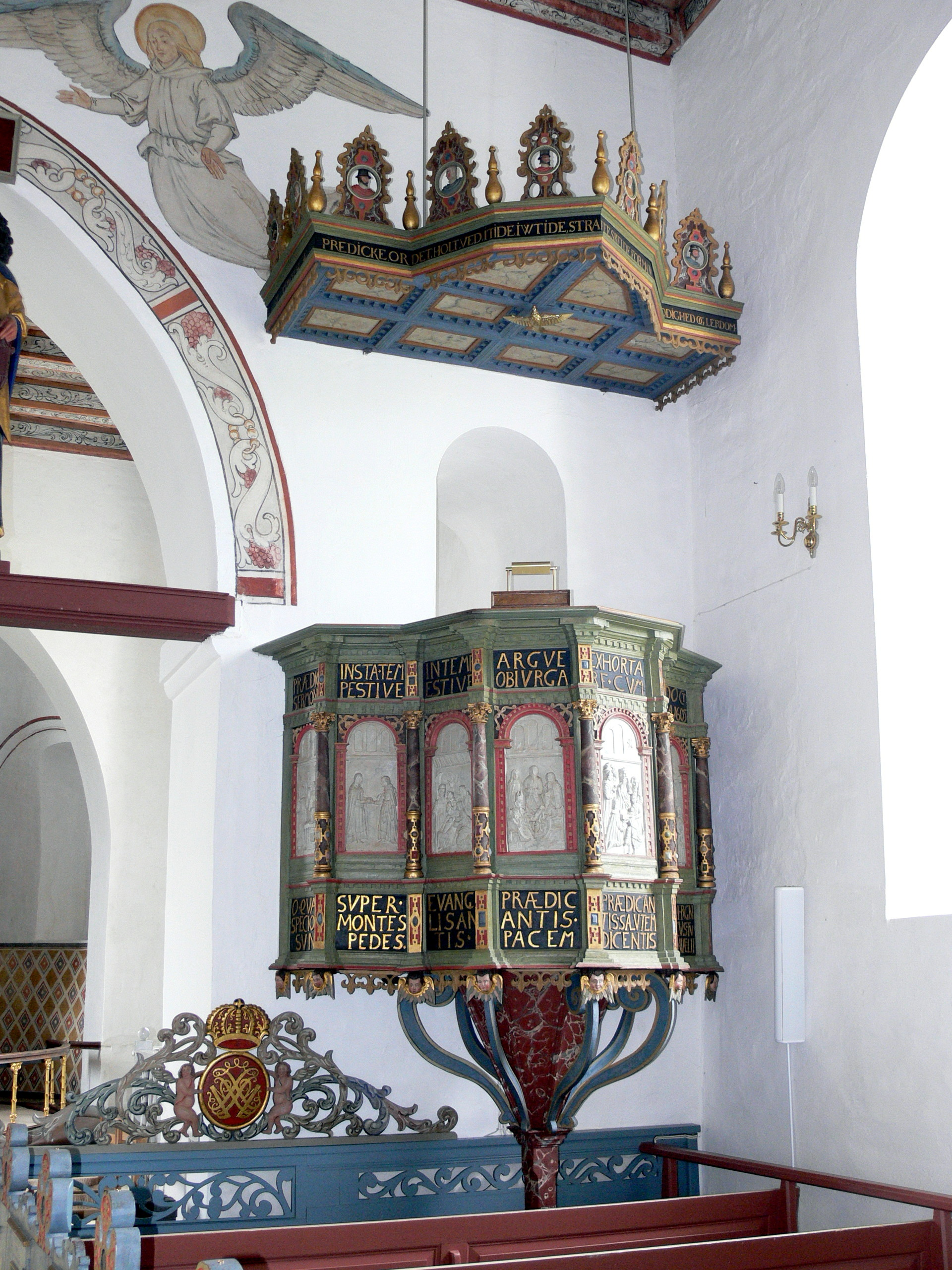 Brøns parish church. pulpit ( 1605 ) from Ribe.